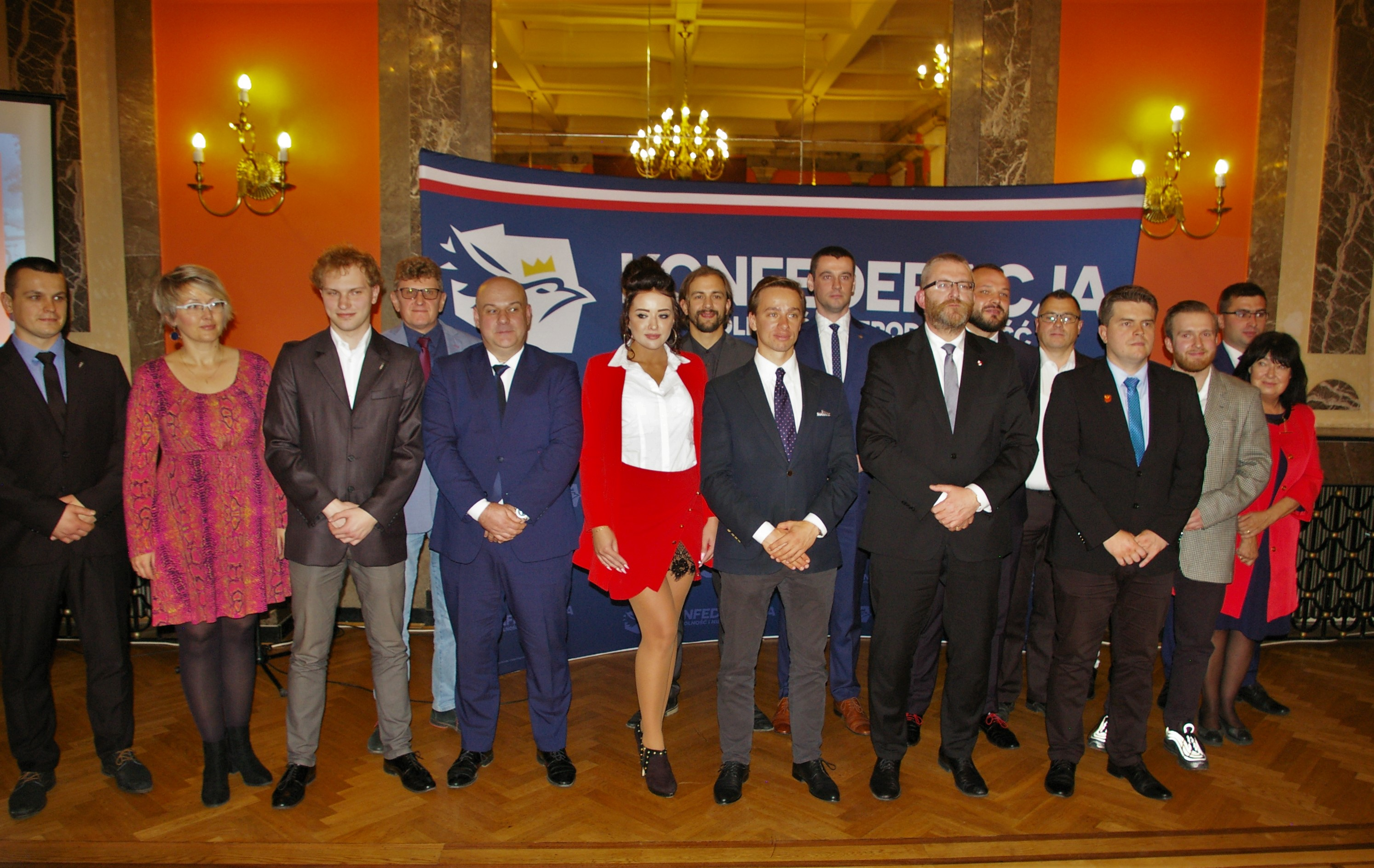 Election Convention of the Confederation of Freedom and Independence in Kielce - Grzegorz Braun and candidates from the Świętokrzyskie region. Provincial Culture Center Józef Piłsudski, 4 October 2019. From left: Dawid Kurowski, Aneta Szczęsna, Łukasz Ospara, Krzysztof Pająk, Krzysztof Kasza, Roksana Oraniec, Mateusz Kamil Iwan, Krzysztof Bosak, Dawid Lewicki, Grzegorz Braun, Artur Kopacz, Juliusz Bilski, Łukasz Wilczyński, Piotr Burzawa, Damian Milczuszek, Mariola Piasecka_Leydo